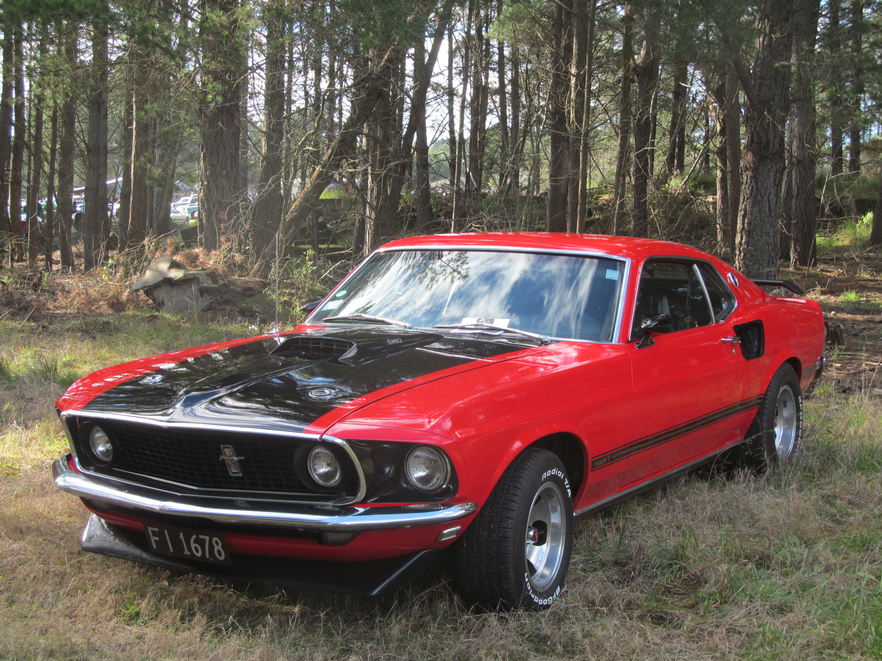 A pretty iconic vehicle; this one has been in NZ since early 1971. I wonder if it was brought over by an American on Operation Deep Freeze to Antarctica?